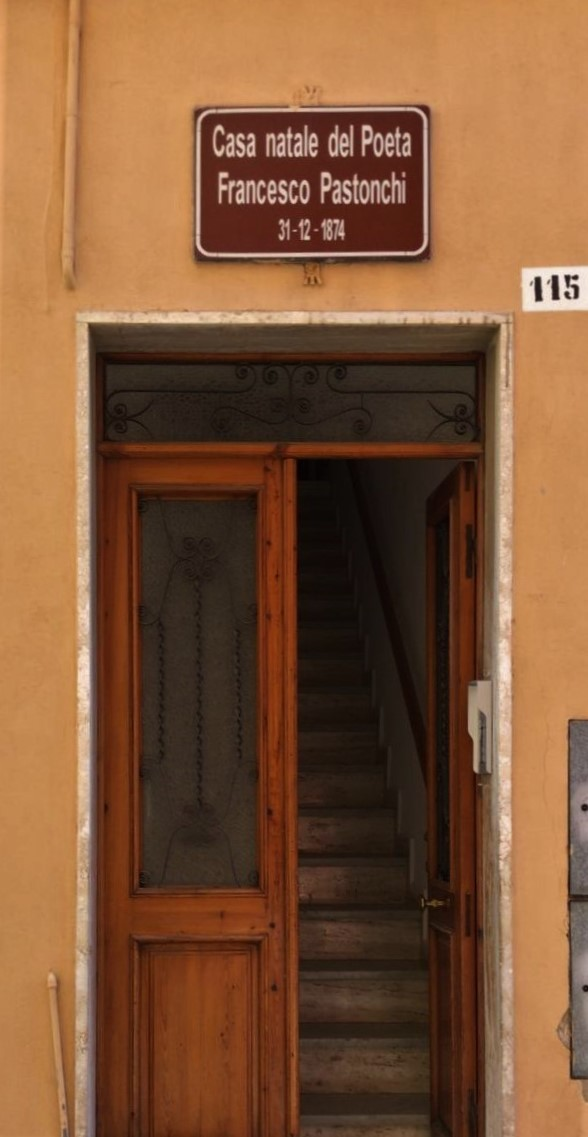 Francesco Pastonchi's birthplace